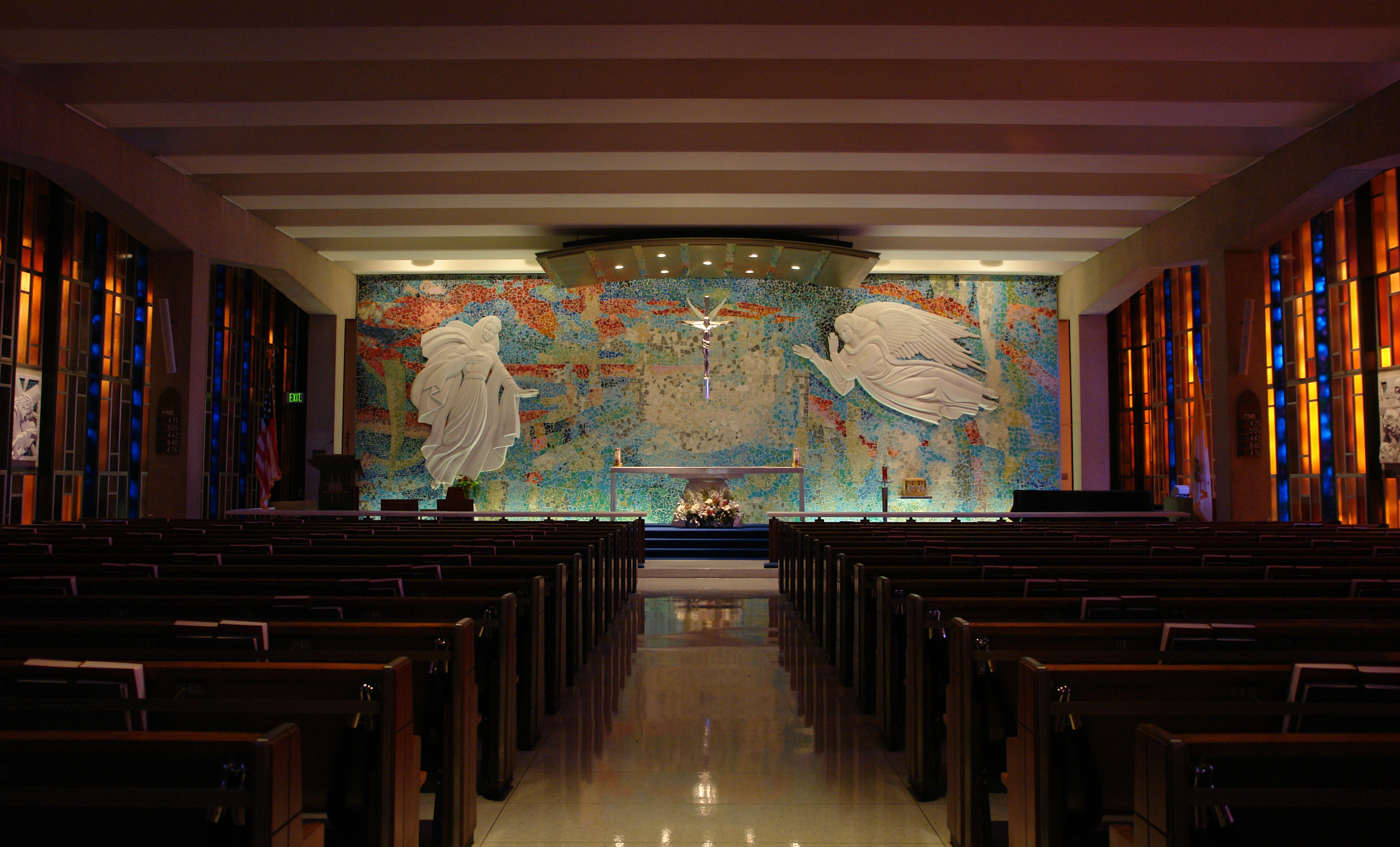 This is the Catholic chapel, in the lower floor of the Air Force Academy Cadet Chapel.